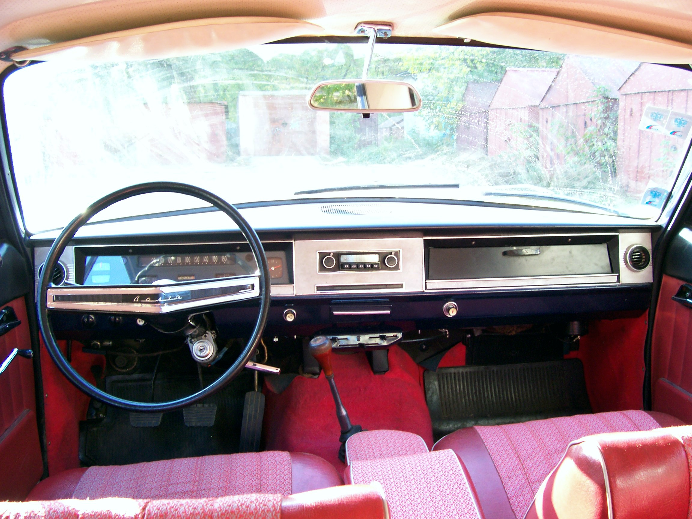 1974_gaz-24_dash